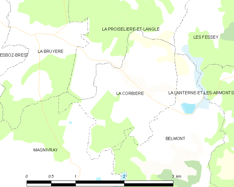 Map of French municipality